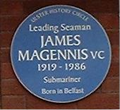 Blue Plaque in Great Victoria Street, Belfast, to commemorate James Joseph Magennis VC I took this photo on Sunday 13 May 2007 following the commemoration of those who "know no grave but the sea"